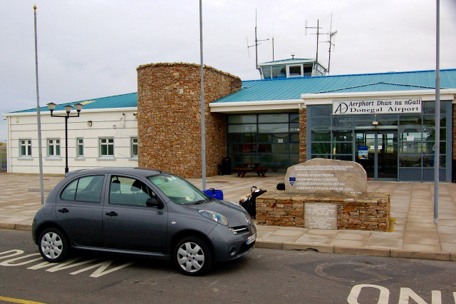 Donegal Airport